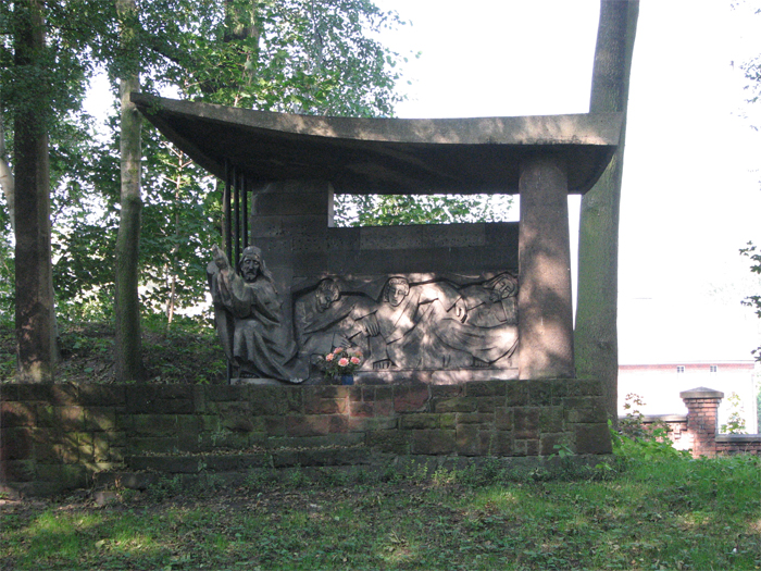 Calvary in Katowice Panewniki, Chapel of the Rosary - The first sorrowful mystery "Agony in the Garden". Built in 1958.